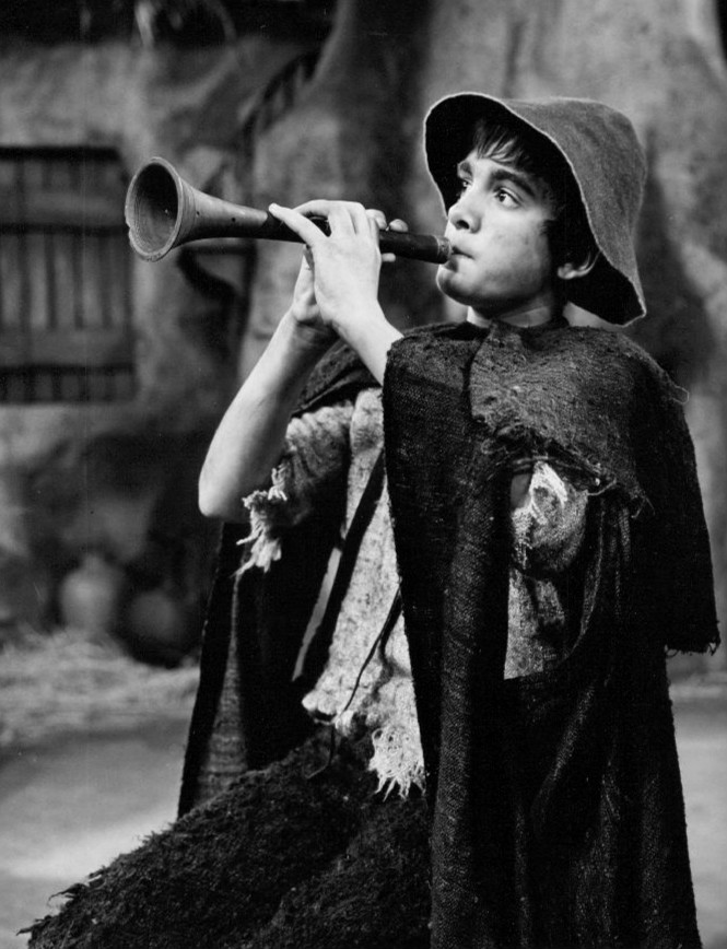 Photo of Kurt Yaghjian in the title role of the opera Amahl and the Night Visitors. The opera was performed from 1951 to 1966 annually on NBC television as part of its Christmas programming. By 1963, the performance changed from being live to on tape.